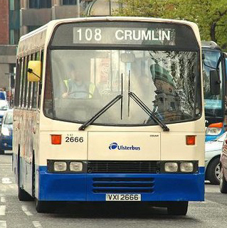 Infrequent bus, Belfast